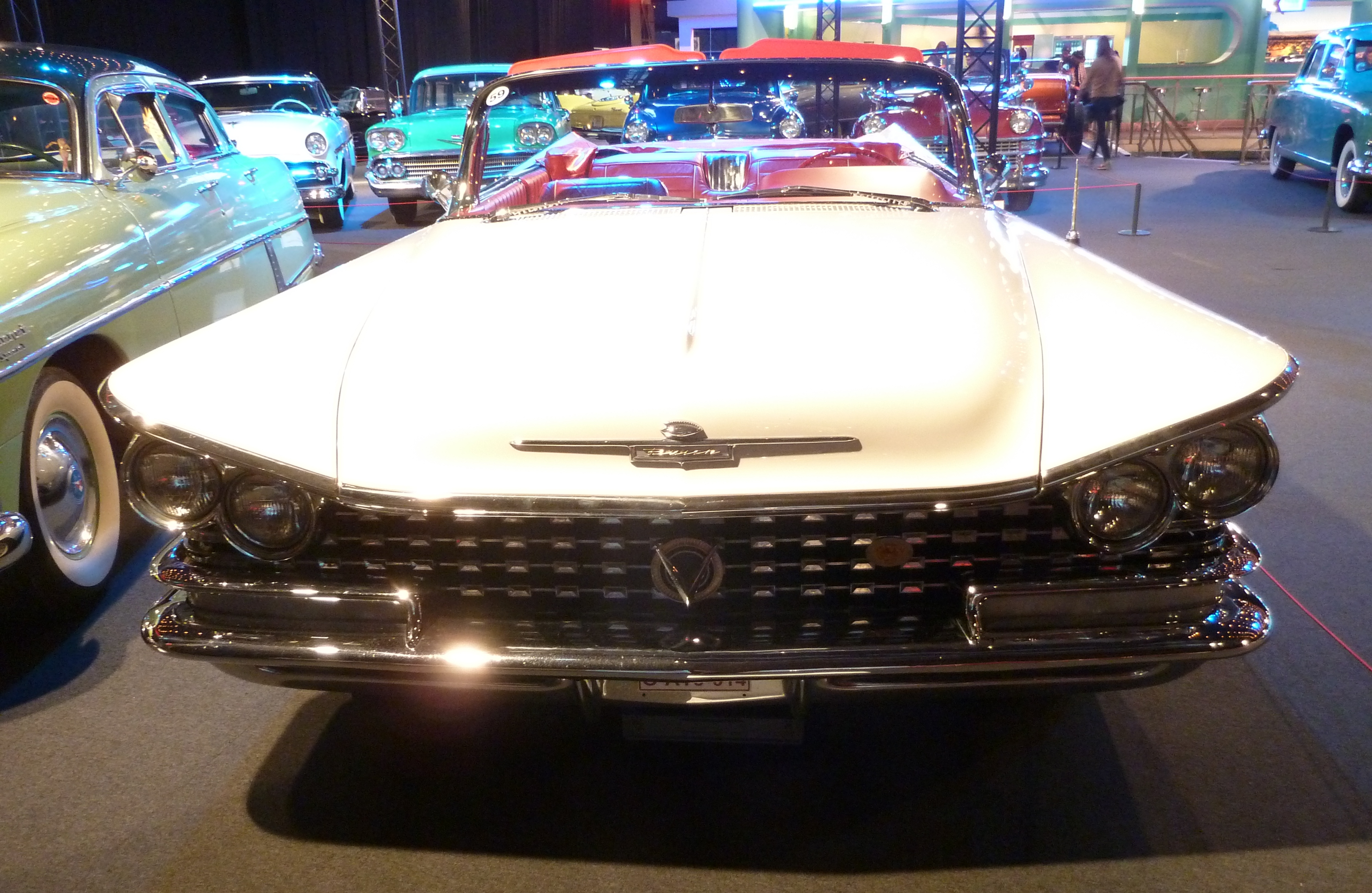 Buick Electra (C-body RWD) 1st generation